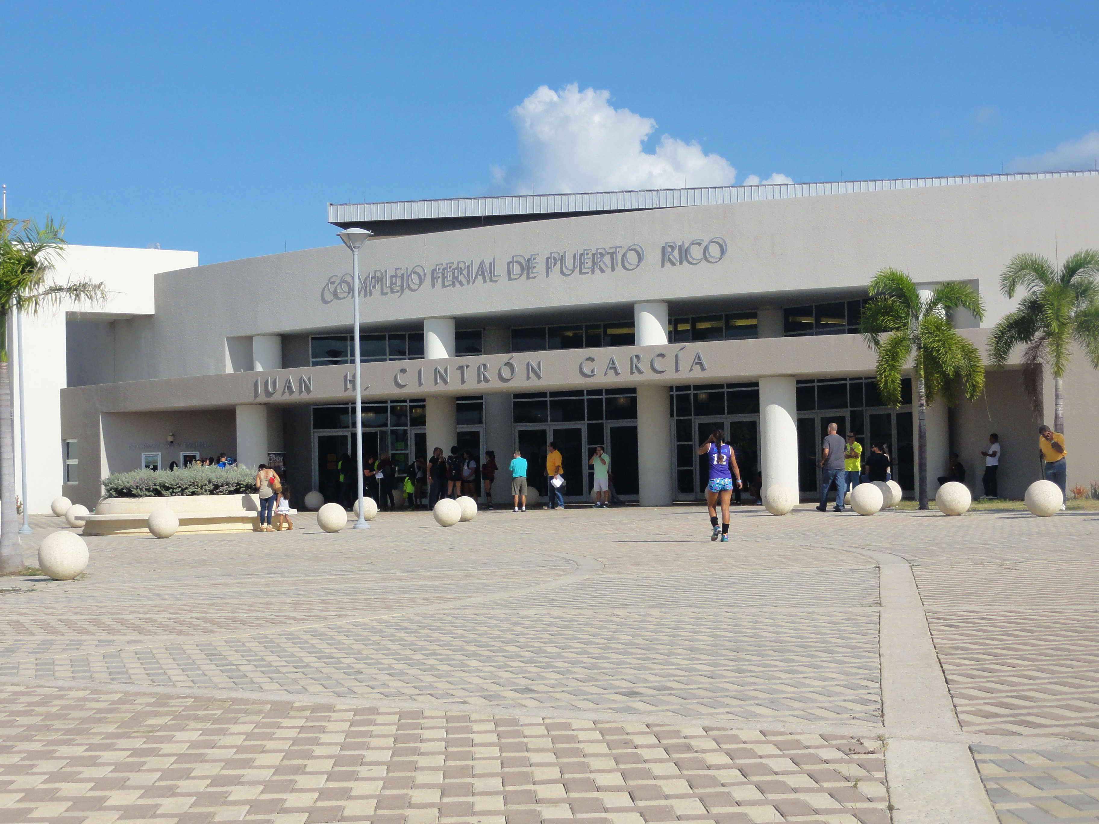 Complejo Ferial de Puerto Rico, tambien conocido como el Centro de Convenciones de Ponce (07312)